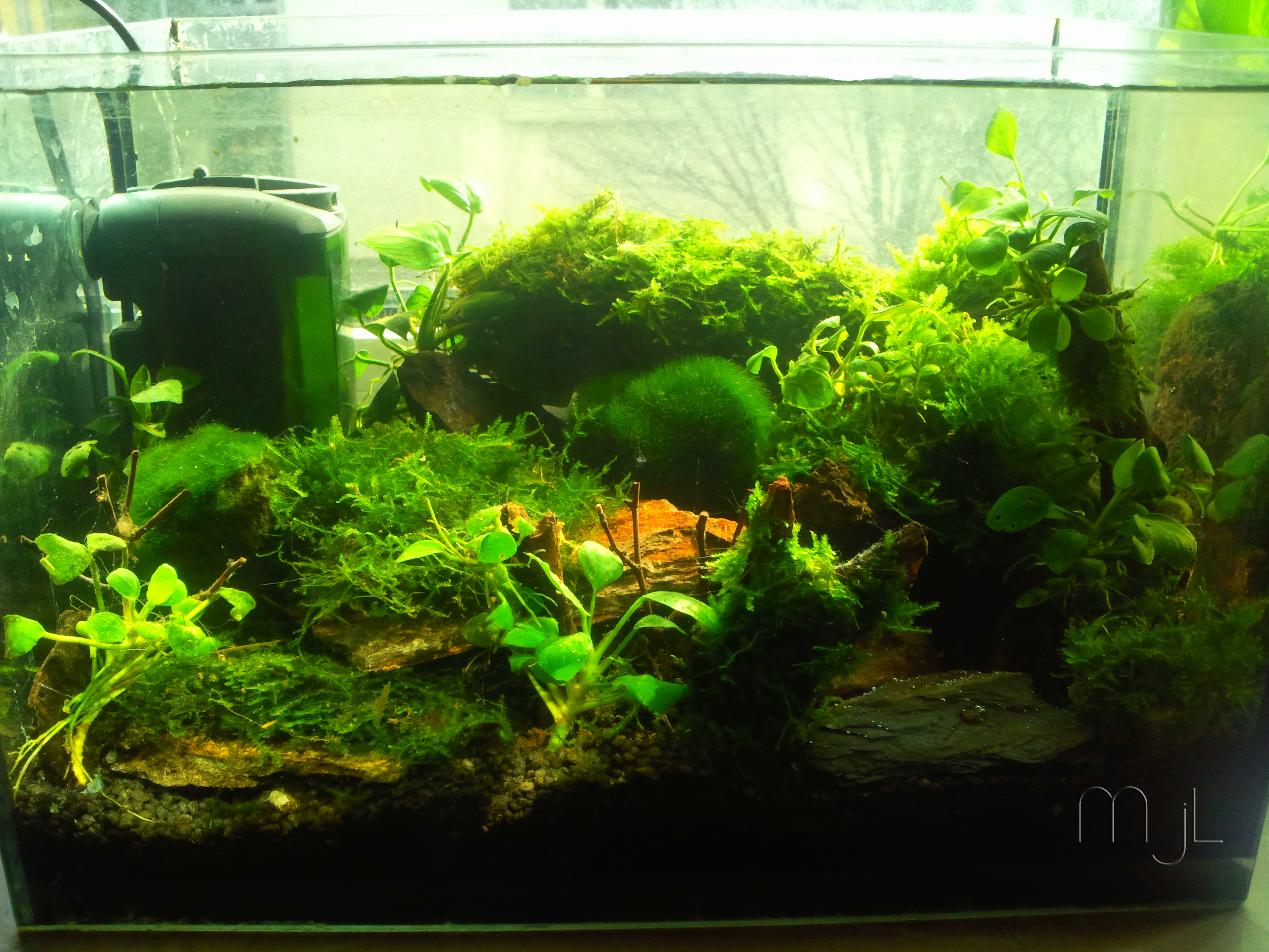 nano tank